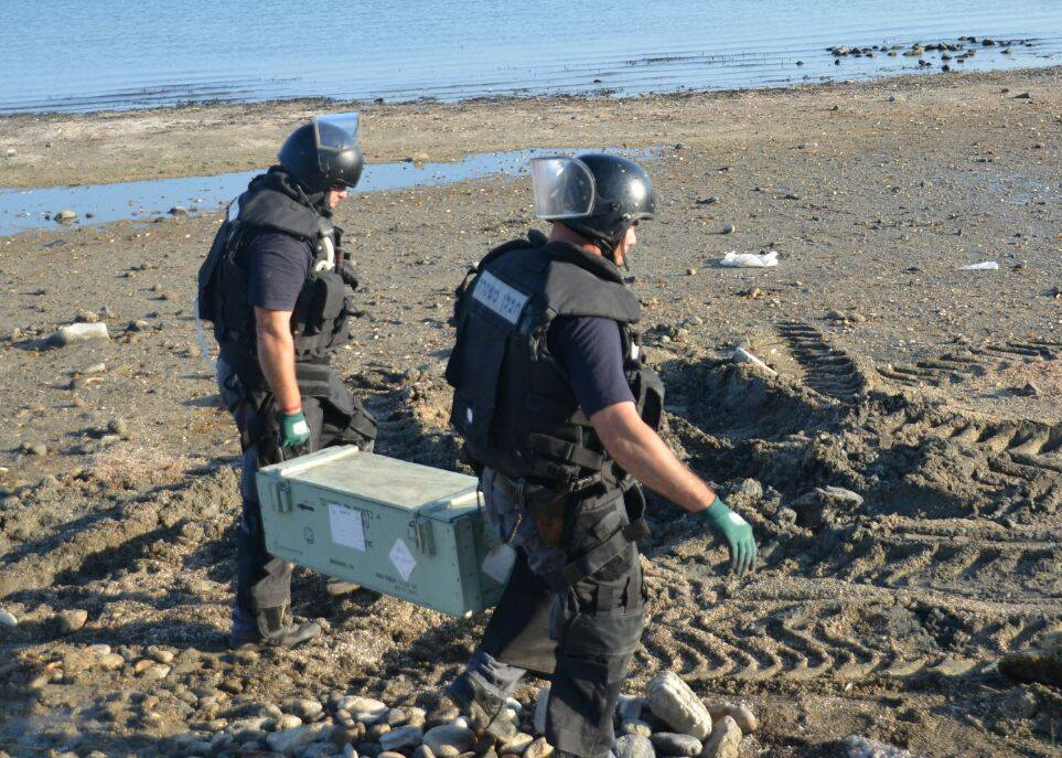 Israeli Police bomb disposal unit safely detonated old World War I artillery shells in the Sea of Galilee (Kinnereth). The bomb disposal operators carefully transported the shells into a safe place and detonated them without damage.